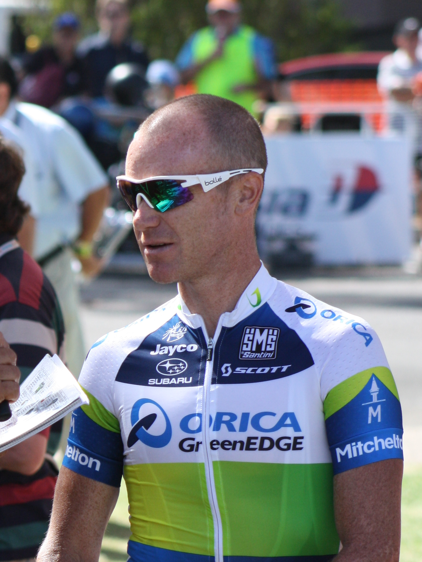 Yeah I grew up around the corner!